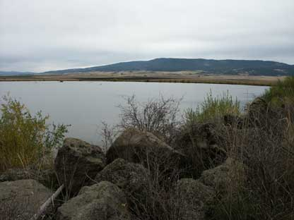 Tolo Lake, on the Camas Prairie in Idaho County, Idaho. An important meeting place of the Nez Perce Indians, it is listed on the National Register of Historic Places.